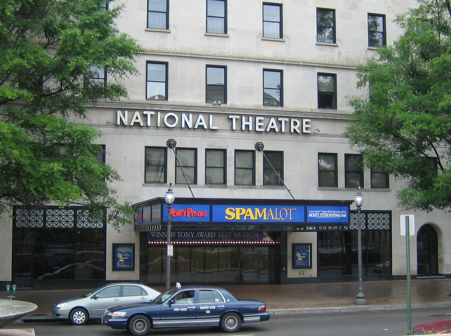 National Theatre, Washington, D.C. Image taken by User: D Monack with Canon PowerShot SD300 on 26 May 2006.